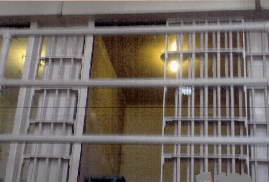 Cell 181 in the historic Alcatraz Prison in San Francisco Bay. This cell is where Al Capone spent his prison sentence when he was sent to Alcatraz in August 1934.